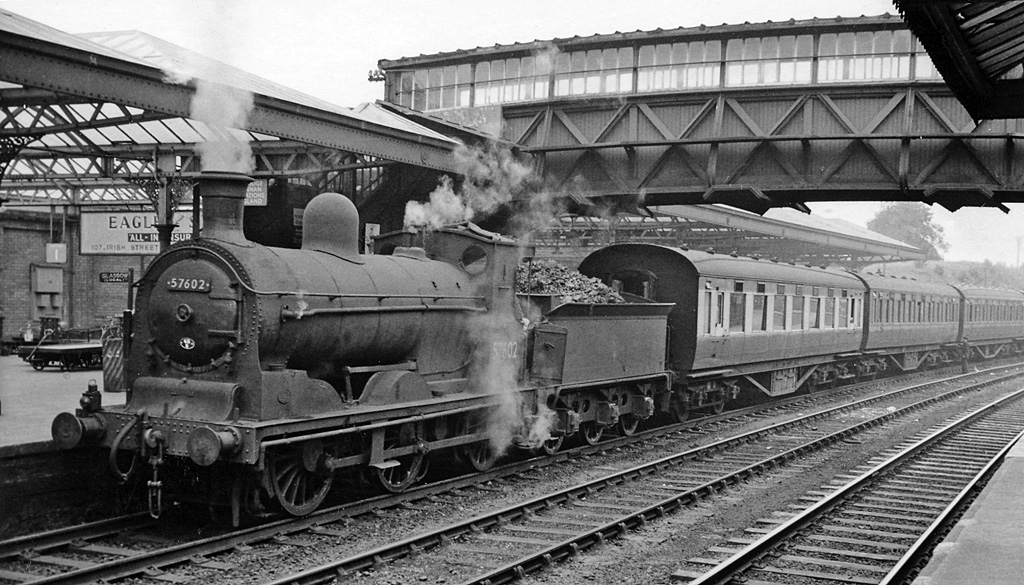 Dumfries Station: the station pilot is at the rear of an Up express. View southward, towards Carlisle; ex-Glasgow & South Western Carlisle - Glasgow/Stranraer main lines. (See also NX9776 : Dumfries Station, with train). The pilot is ex-Caledonian 3F 0-6-0 No. 57602.